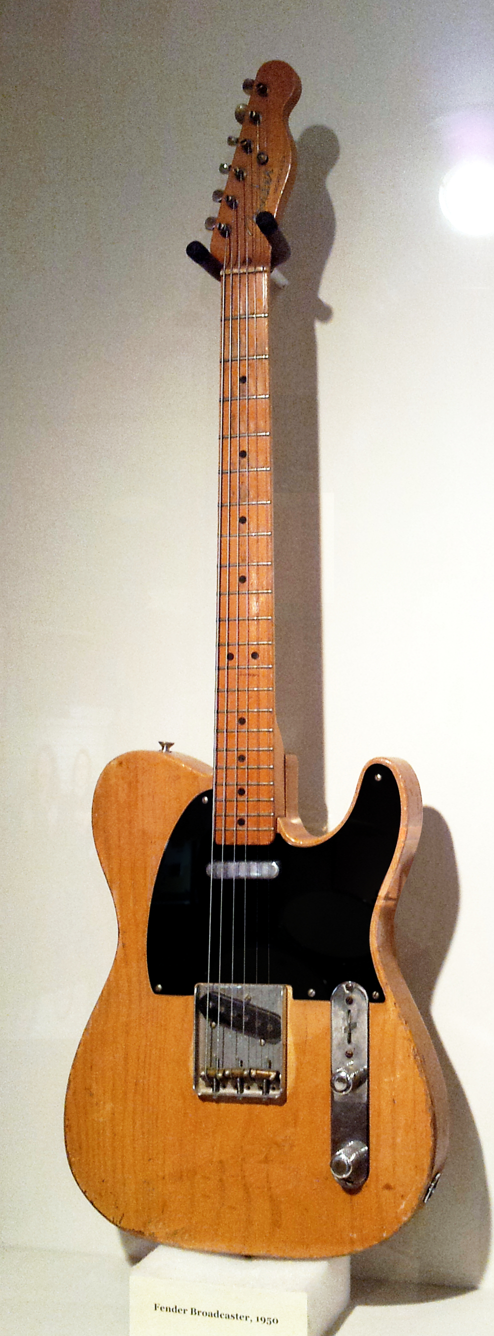 Fender Broadcaster (1950), Museum of Making Music